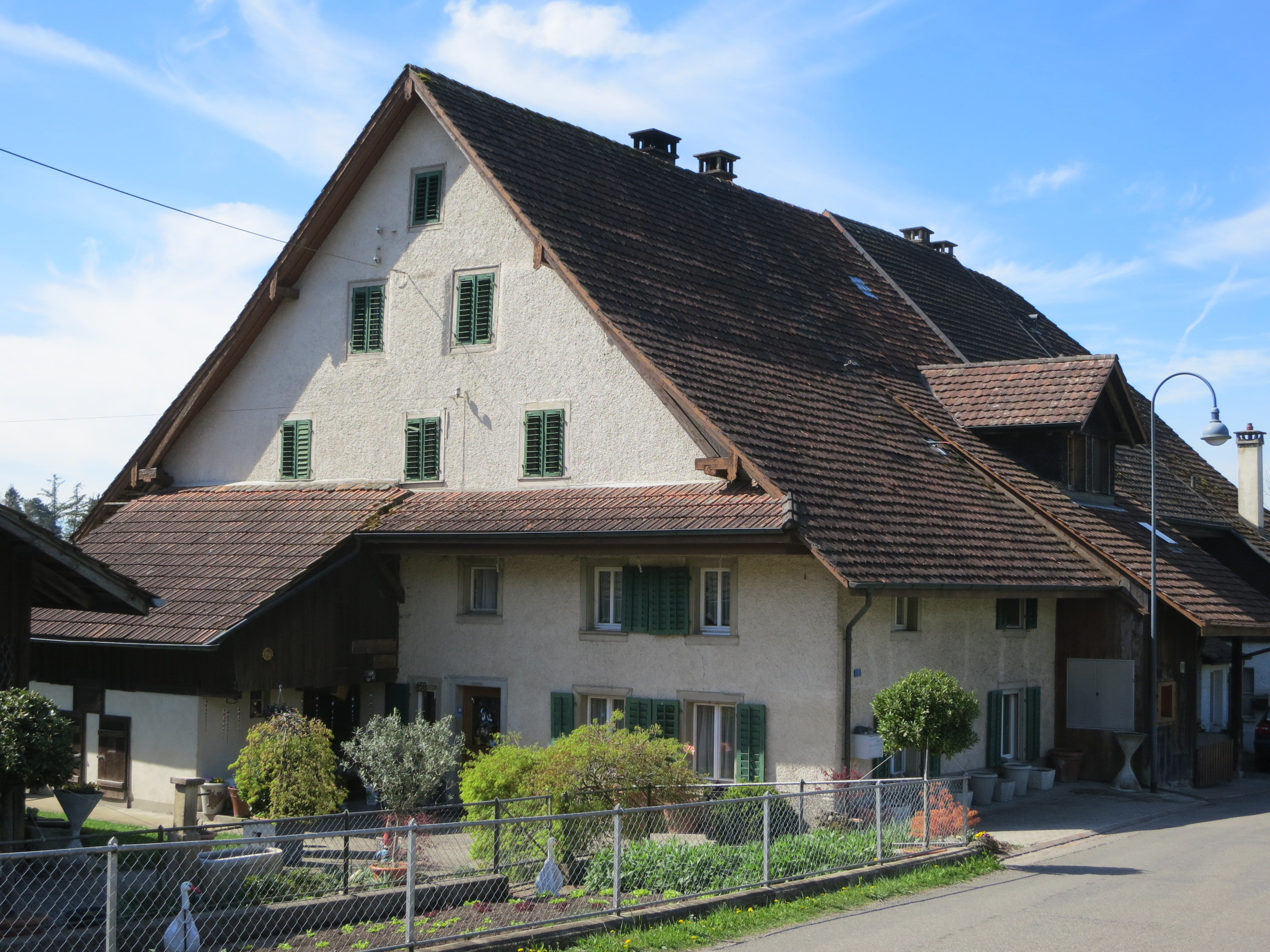 Jonen AG, Switzerland